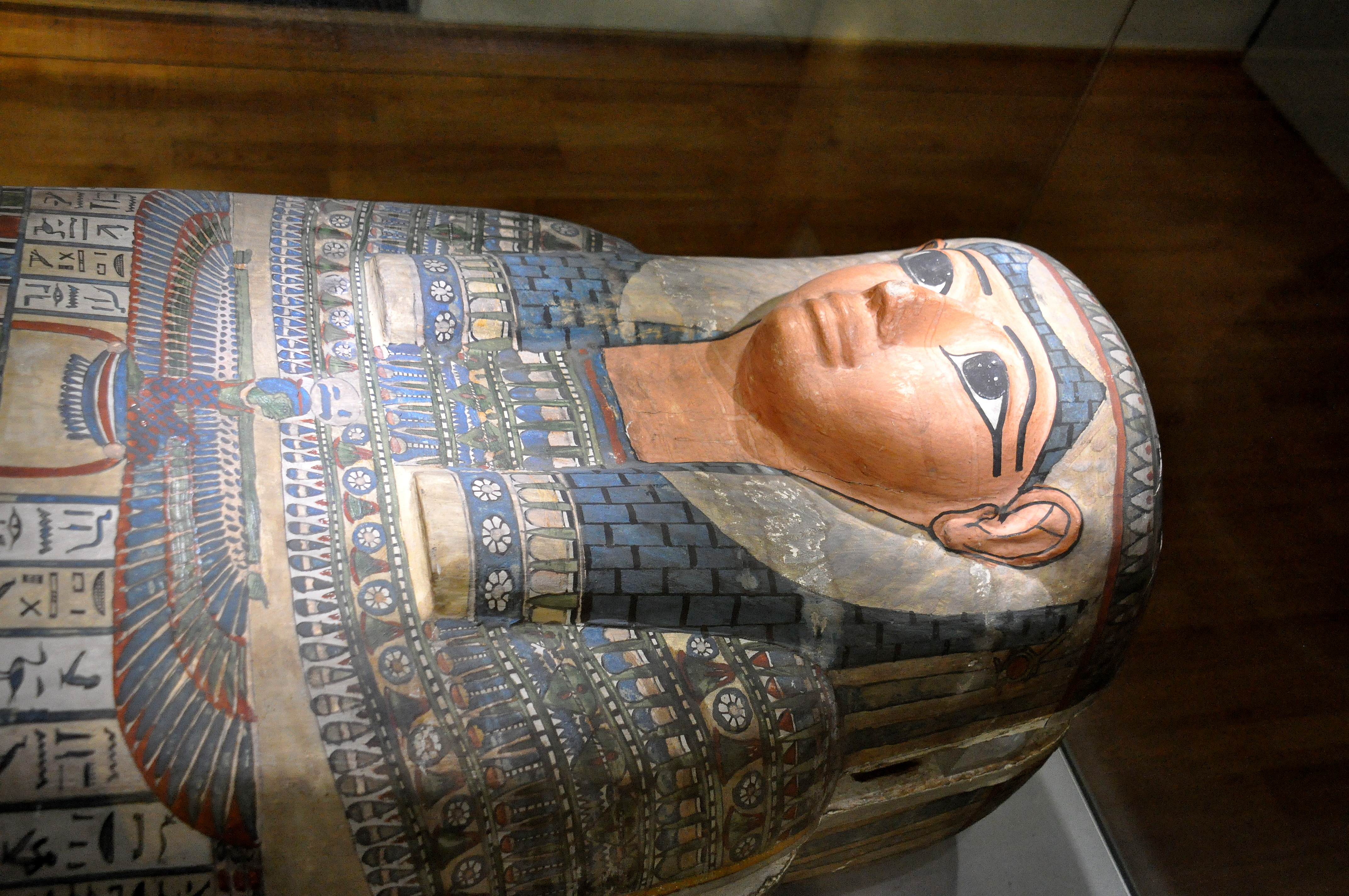 This sycamore coffin contains a mummified body of an Egyptian woman. The hieroglyphic inscriptions on the coffin state that the deceased woman's name is Shepnehor (or Shep-en-hor) and died around 600 BCE. From the necropolis of the Western Thebes, Southern Egypt. The Hunterian Museum at the University of Glasgow, Scotland, UK.